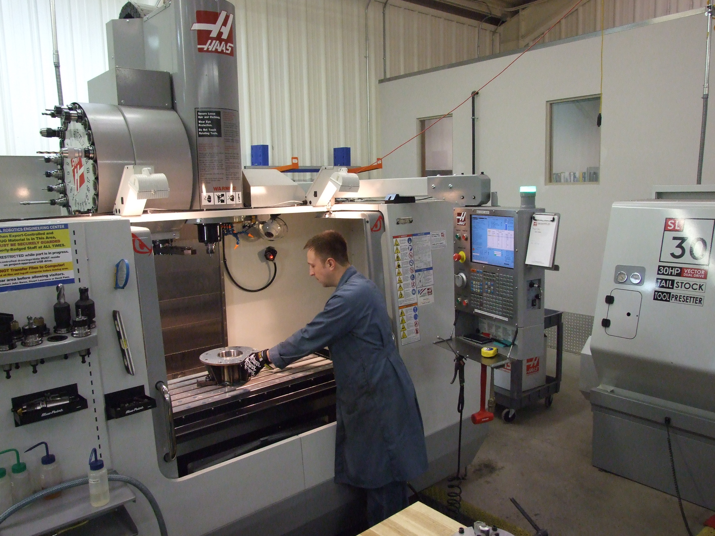 NREC Technician